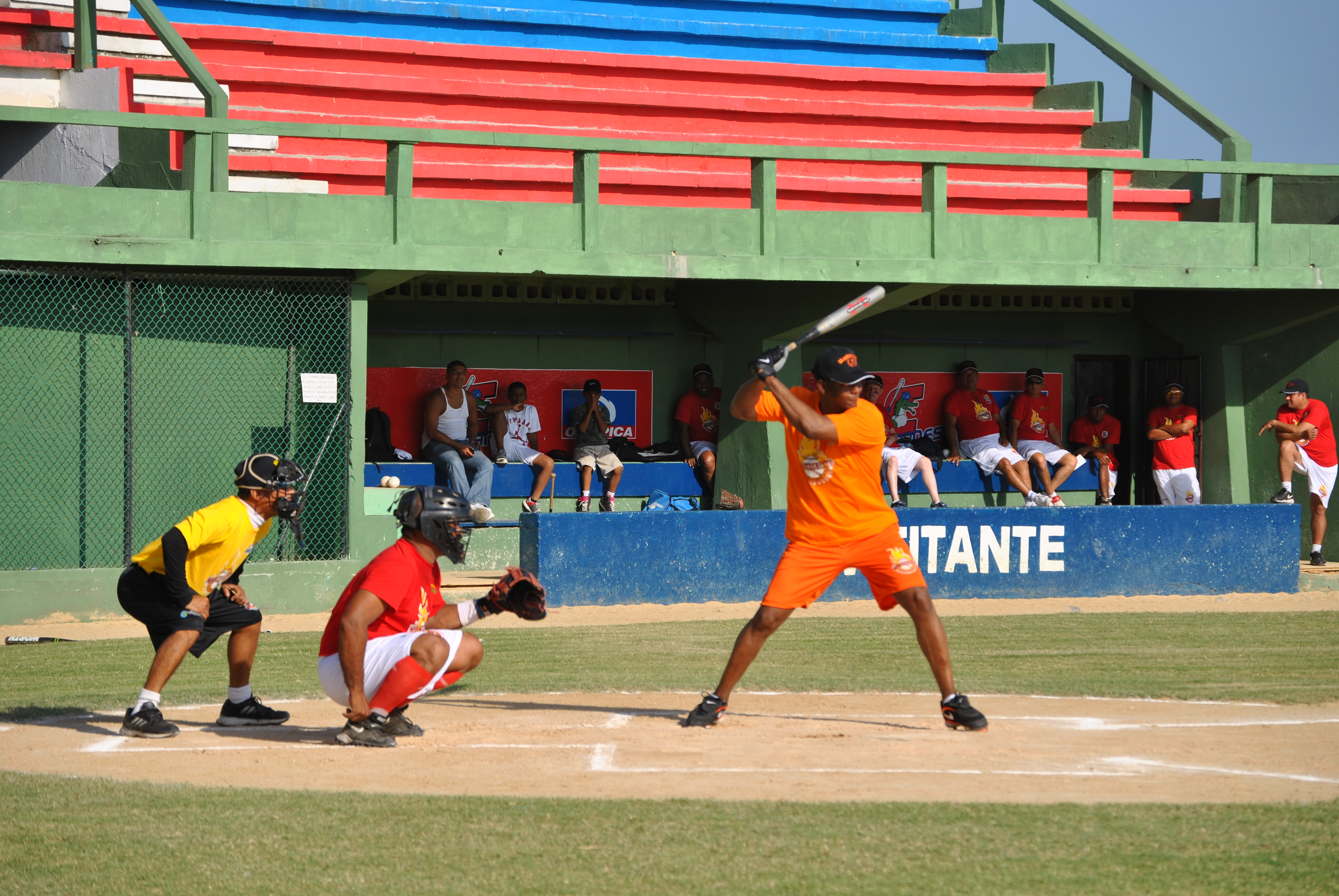 Edgar Renteria exhibition